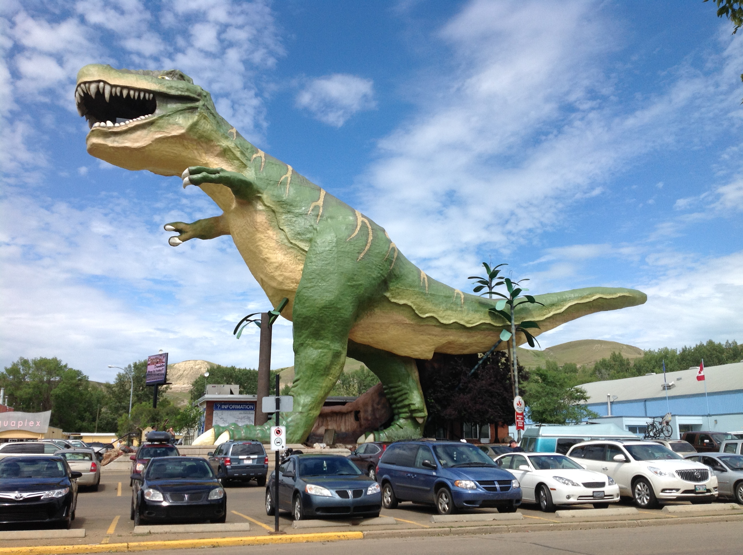 World's Largest Dinosaur